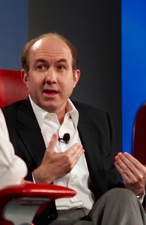 Philippe Dauman at the D5: All Things Digital conference.